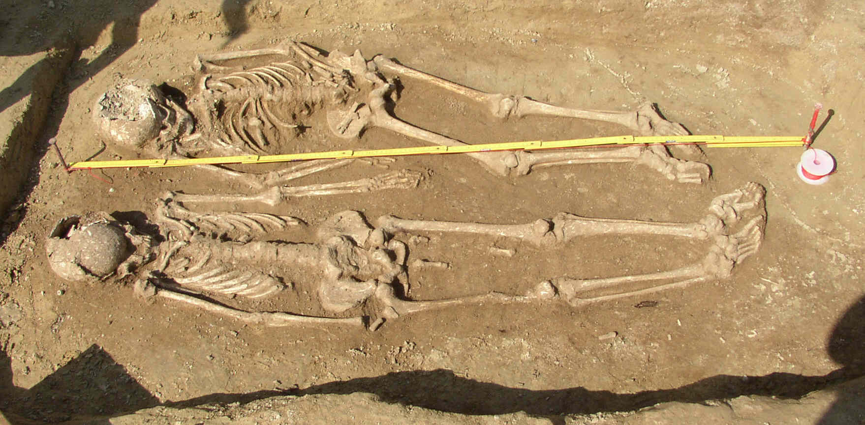 Remainings of two girls of the Alamannic graveyard at Behans near Sasbach am Rhein, Germany. Around 6th and 7th century. The larger girs is approx. 145 cms. Two burrials in one grave are very rare in this period.